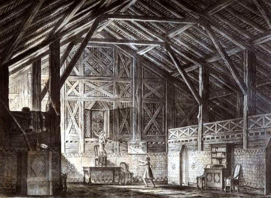 Set of act 1 of the original production of Gaetano Donizetti's opera Otto mesi in due ore at Teatro Nuovo, Naples, 13 May 1827